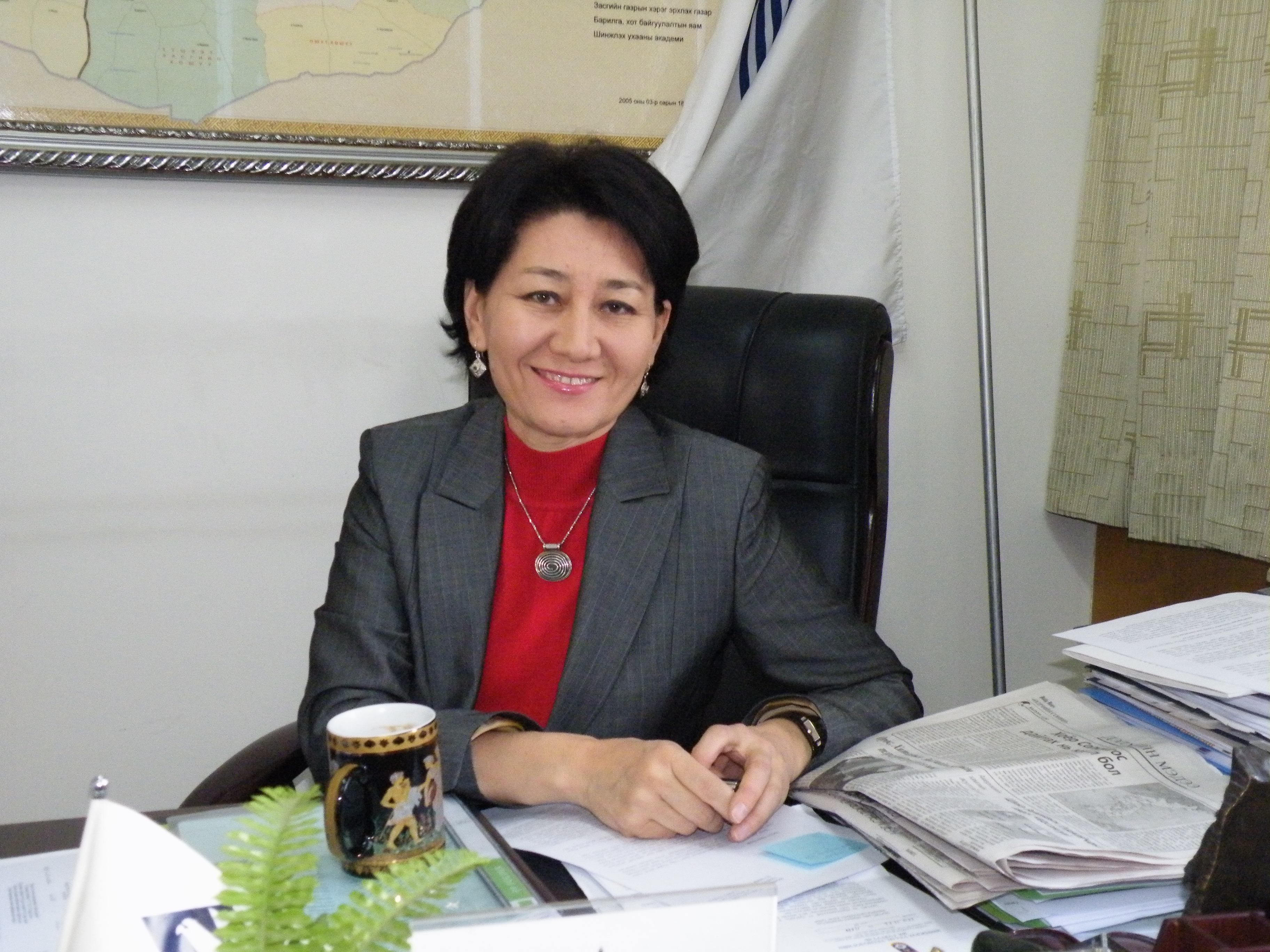 S. Oyun